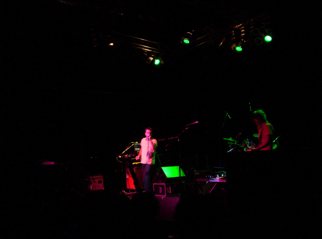 The Fixx live in concert.